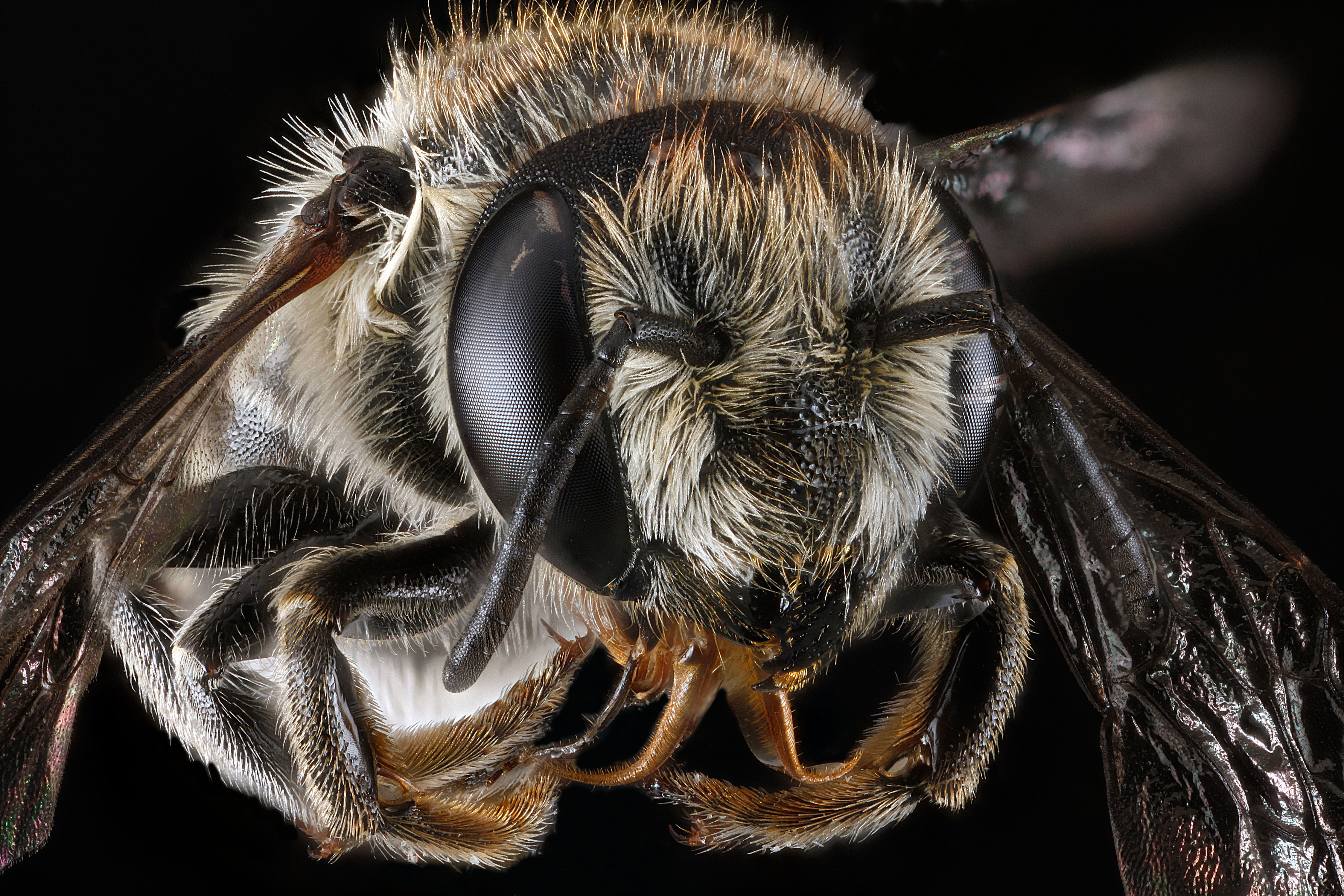 Megachile brevis, Female